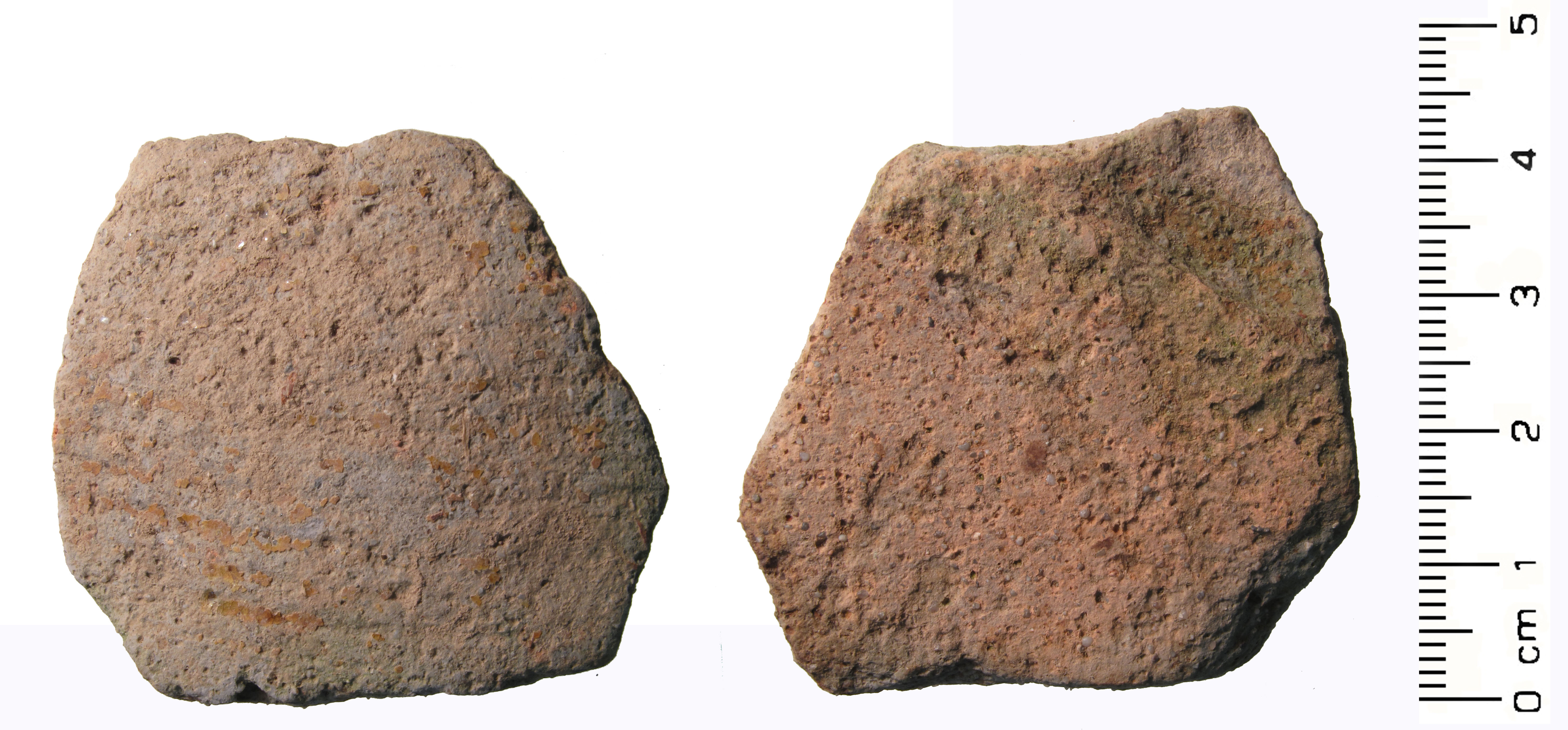 Rally ID: Medieval: One bodysherd of a wheel thrown Mid 13th to 15th Century pottery type, possibly a Bristol type (Ham Green). The sherd probably came from a large glazed jug type. The sherd measures 7.88mm thick and weighs 16.3 grams. It measures 44.69mm in length and 43.89mm wide. Sherd specific details: Fabric type: Local (unsourced) medieval jug type, possibly Ham Green Firing condition: unoxidised exterior, unoxidised core, oxidised interior. Hardness: Hard Surface texture: Smooth Surface treatment: Specks of a light green glaze on exterior. Condition of sherds: Slightly abraded. Sherd has been photographed.